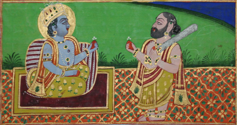 Double-sided folio from a Ramayana. Marwar, circa 1820-40. Opaque watercolour with gold on wasli. 31 x 19.6cm This folio did not belong to a manuscript illustrating Valmiki's Rayana but to a regional variation of it. One side has two pictures one of Agastya giving Rama a sword and the other of Rama and Lakshmana making offerings to Jatayu; the other side has a picture of Rama and Lakshmana before Jatayu who pecks at the ground. I would like to express my gratitude to Tarun Pant for kindly translating the text and commenting on the narrative.